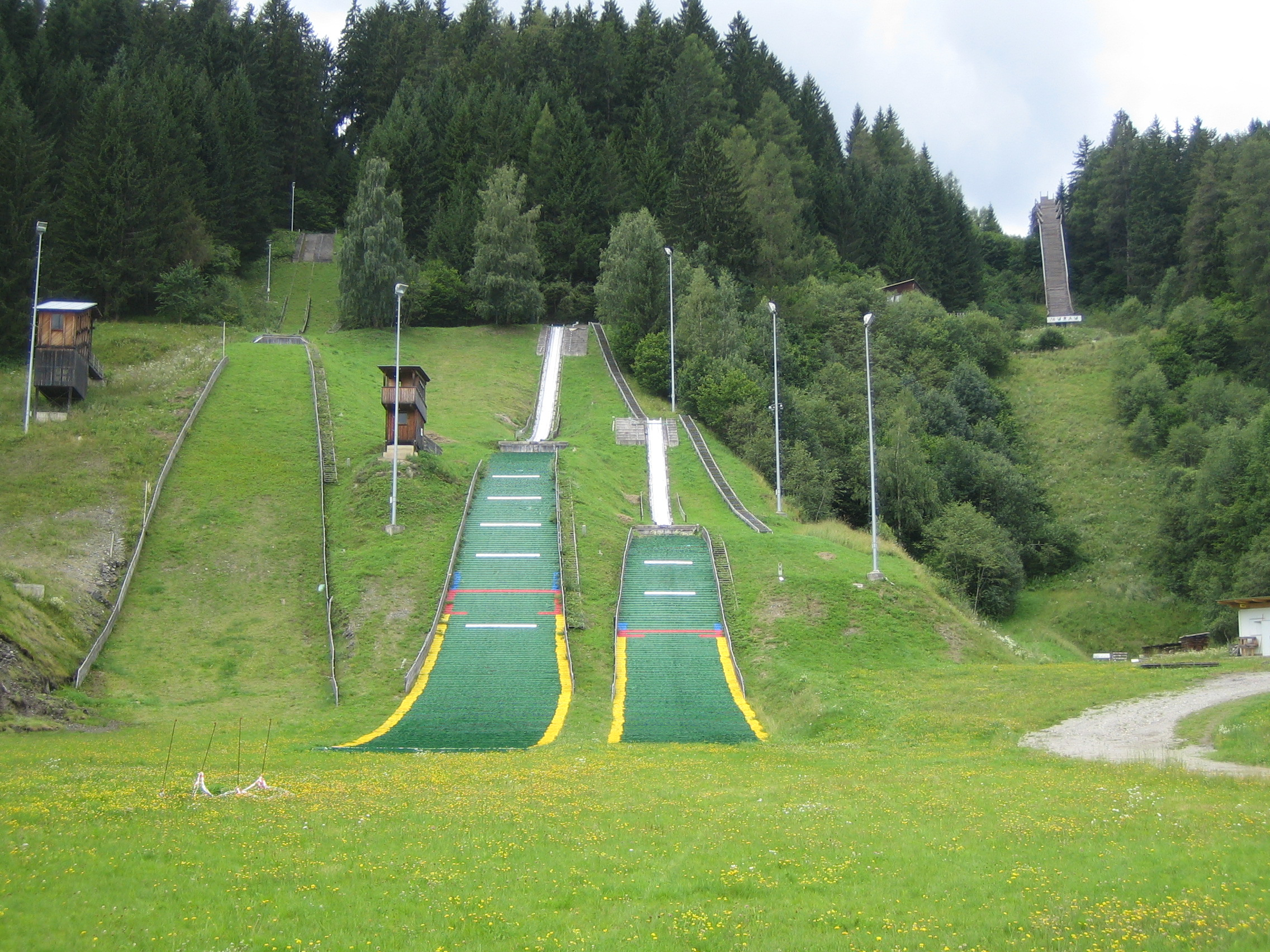 Ski jump facilities in Murau, Styria, Austria. From left to right: K60, K35, K20 and K85. The K120 hill is outside of the photo on the left.